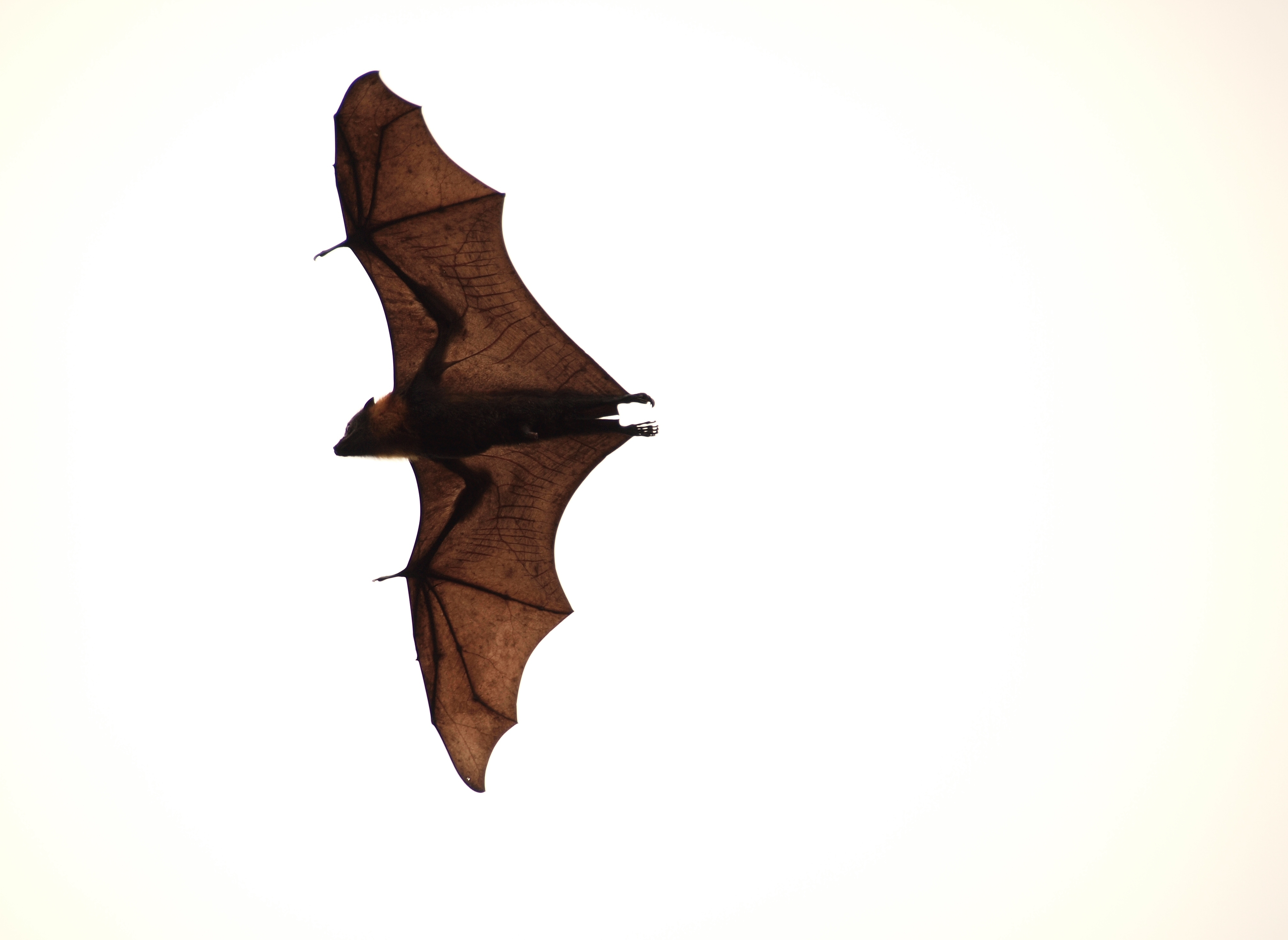 Flying fox at Royal botanical gardens in Sydney.